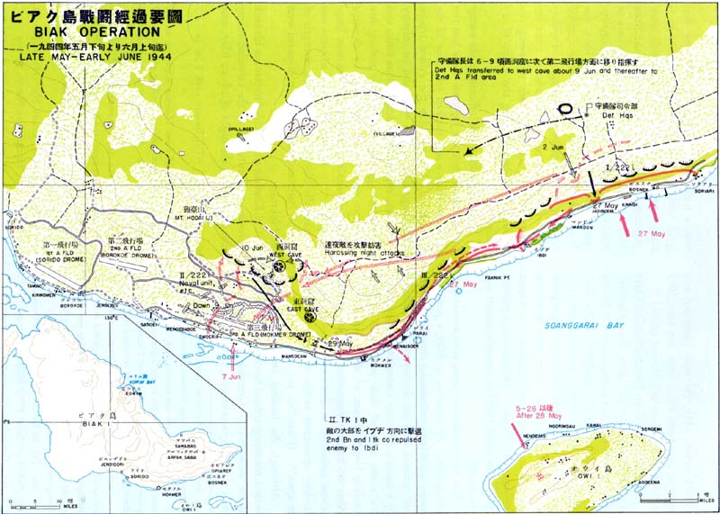 Japanese Biak Operations, May-June 1944